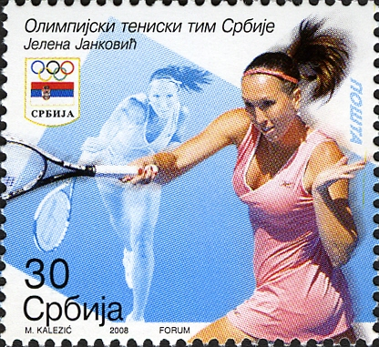 Serbian Olympic Tennis Team - Jelena Jankovic